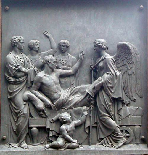 Горельеф памятника Карамзину